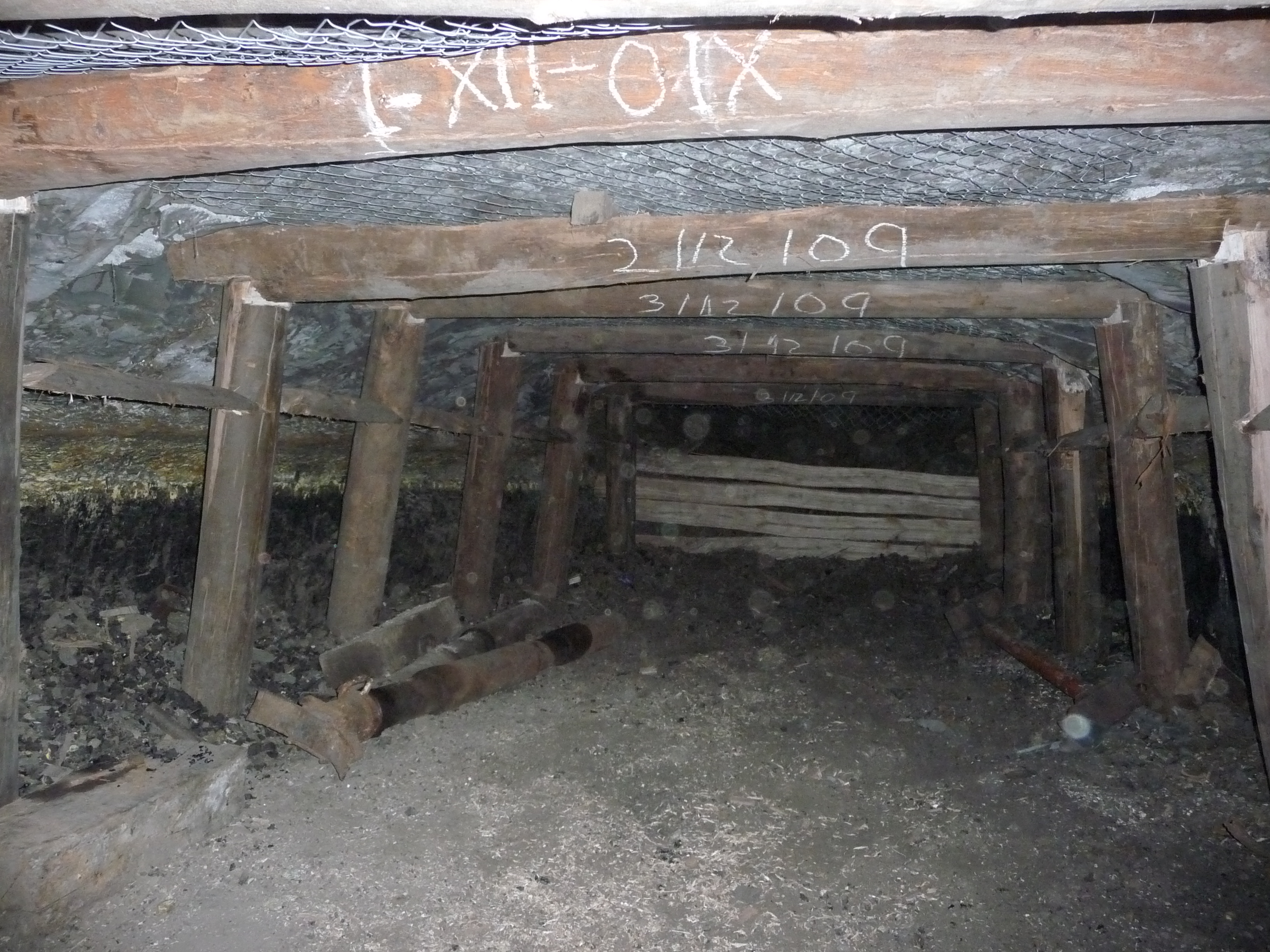 This is a photo of a national monument in Chile: 2129